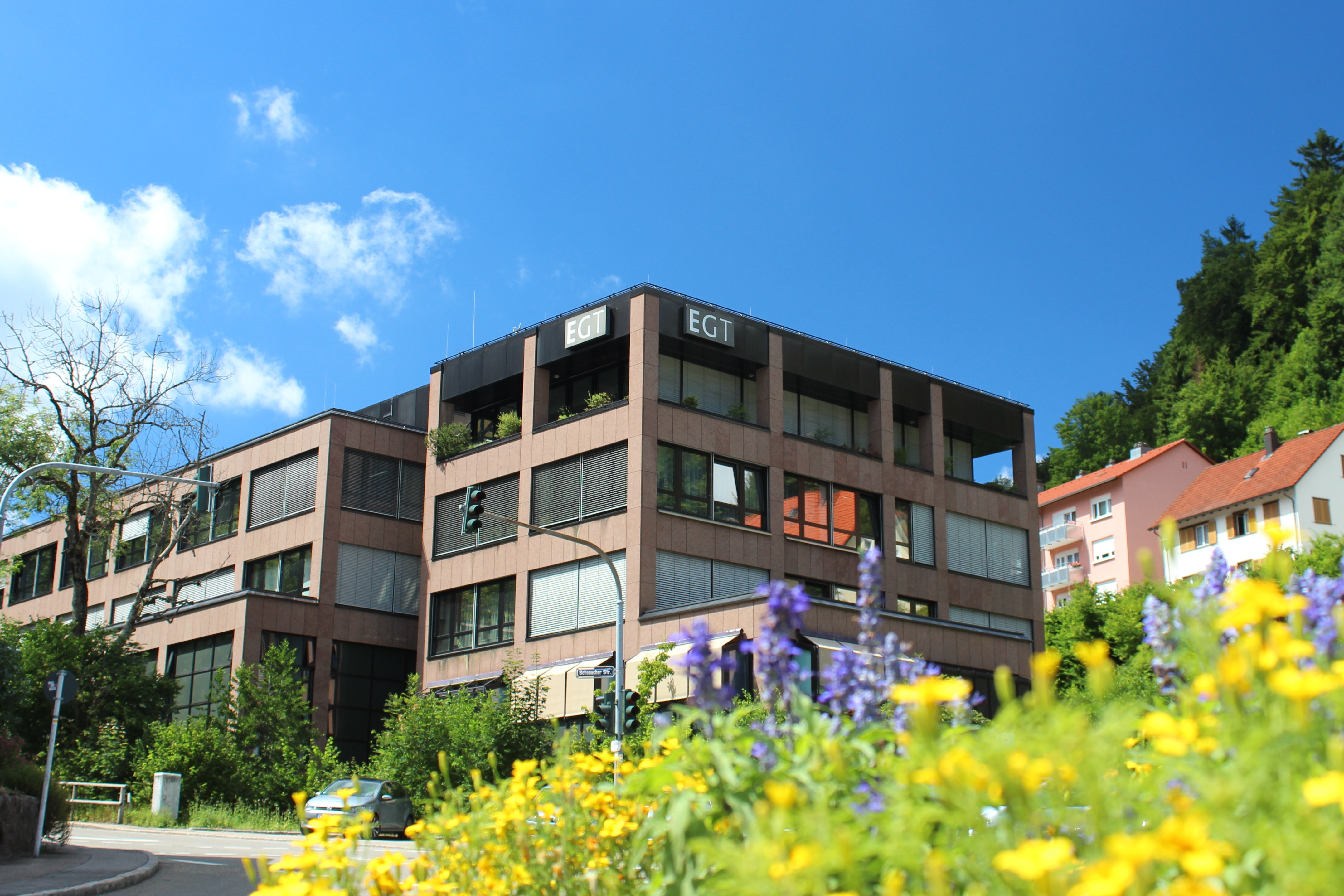 the EGT main building